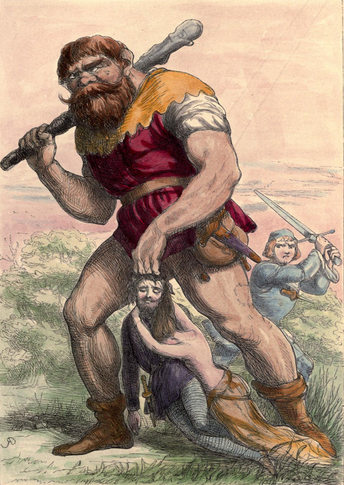 Illustration from Jack and the Giants